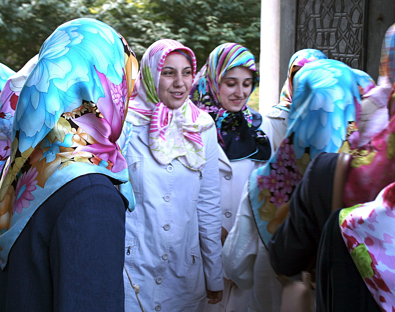 A group of Turkish women, wearing different colored headscarves.